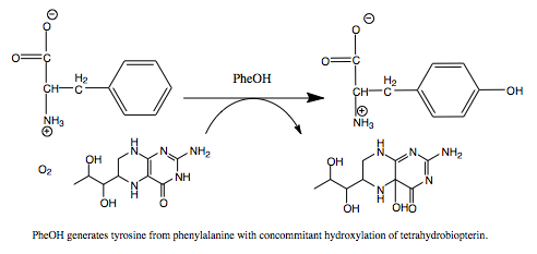 PheOH reaction.